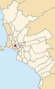 Map of Lima highlighting the Breña district in Lima.